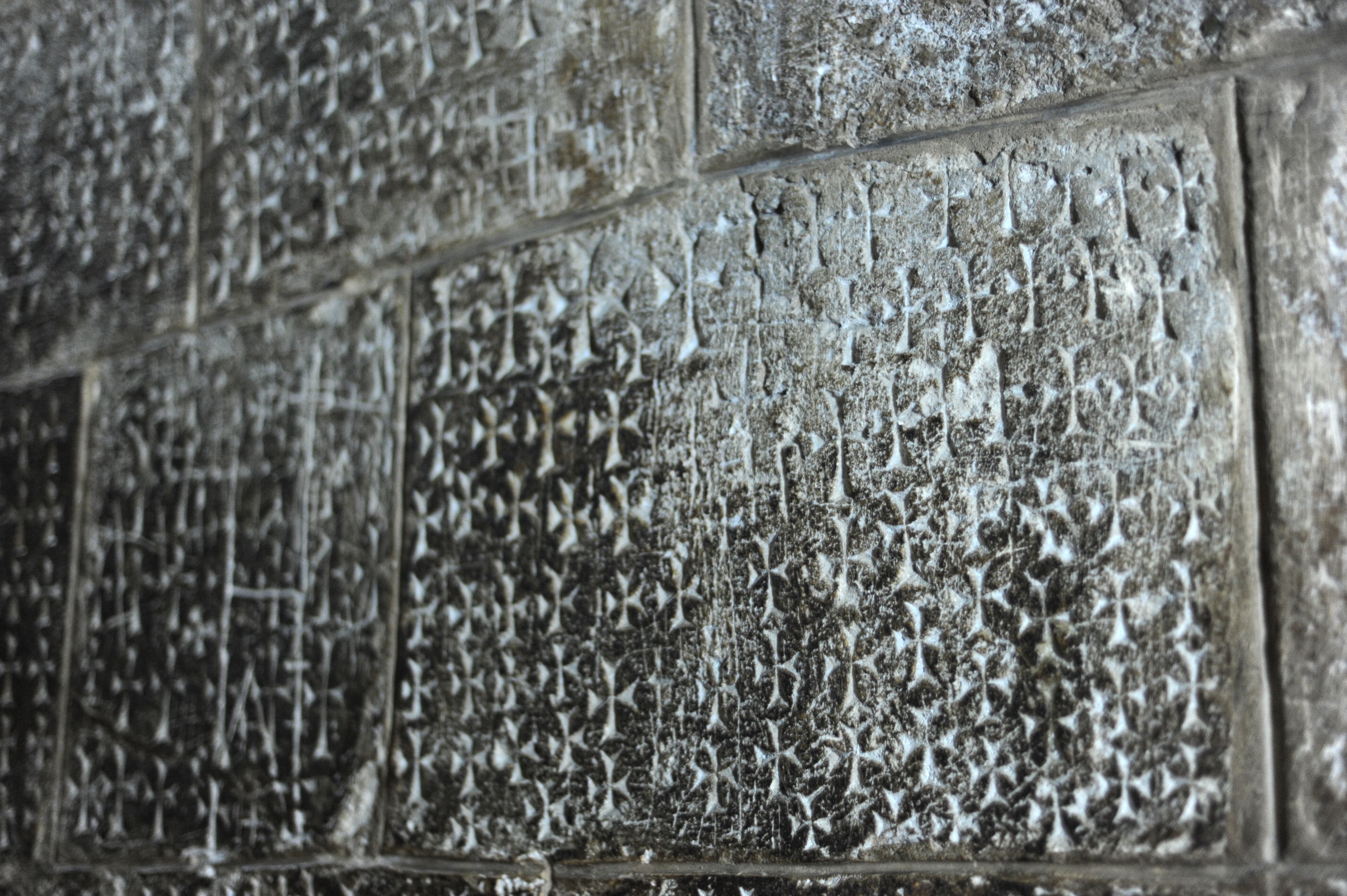 Crusader graffiti on the walls of the stairs leading to the Chapel of Saint Helena, in the Church of the Holy Sepulchre, in the Old city of Jerusalem